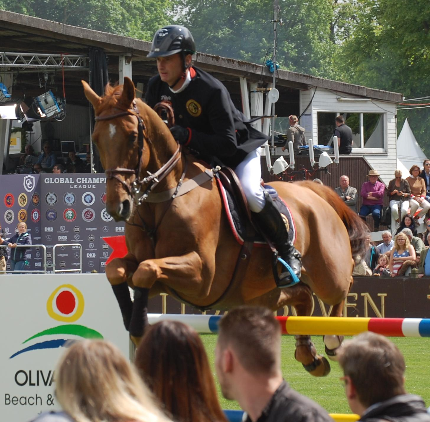 Denis Lynch, team rider for Miami Glory and winner of the Championat of Hamburg riding RMF Echo.